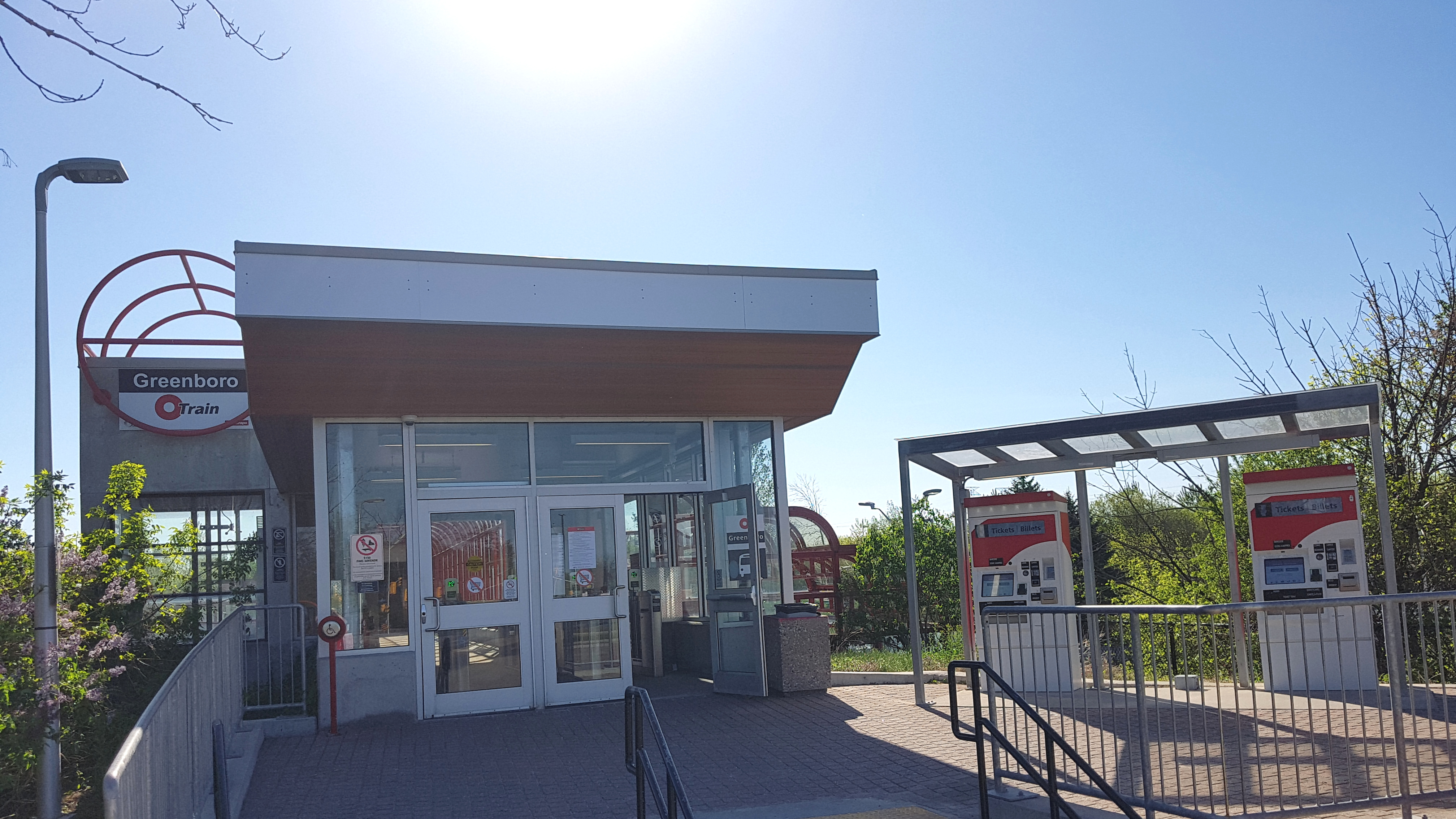 Greenboro station in 2020 (used GIMP for 16:9 crop, +40 brightness and +20 contrast)